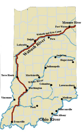 A map of Indiana showing the course of the Wabash and Erie Canal. Lines are approximate